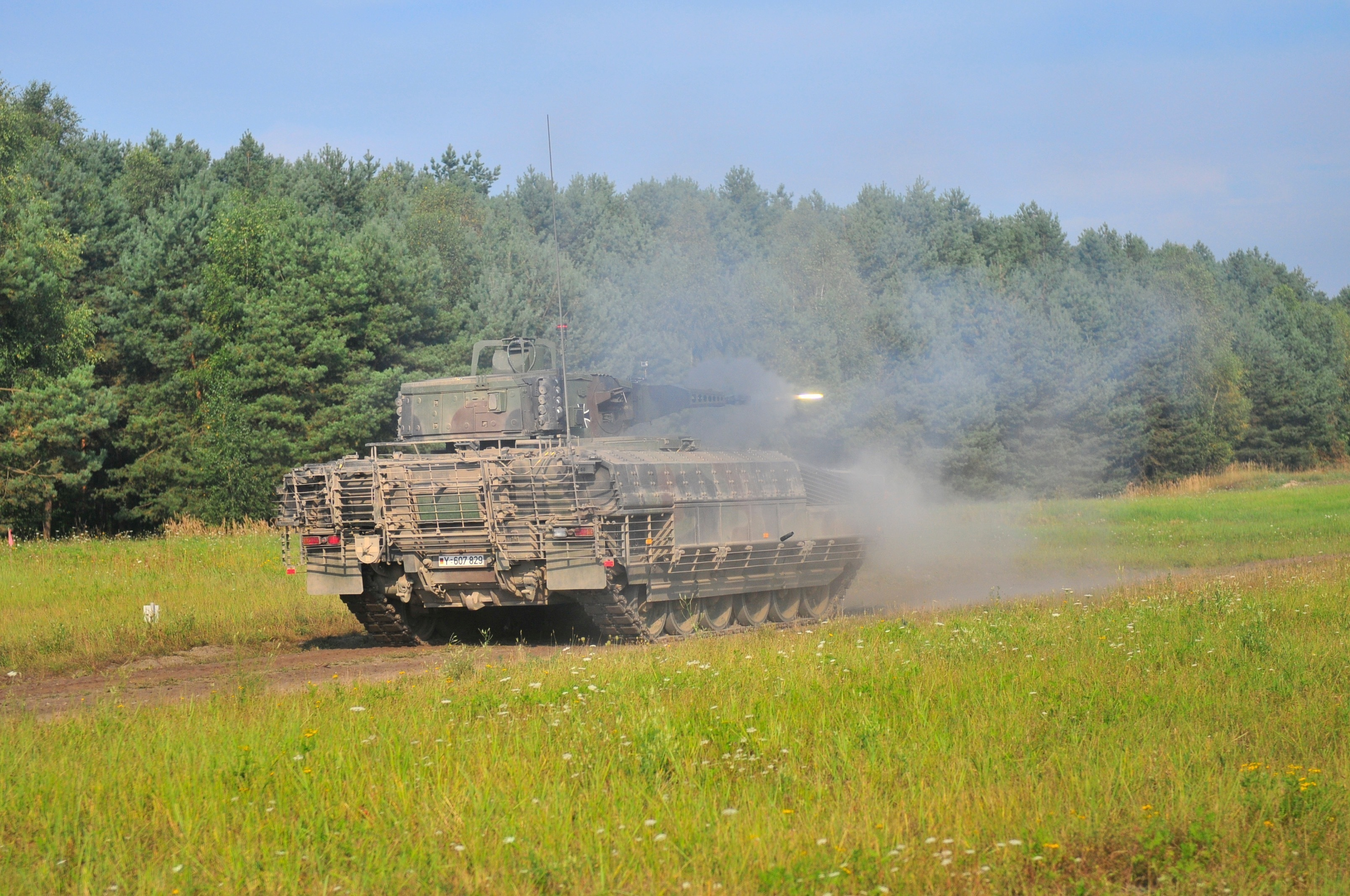 The 4/33 Luttmersen, a German Bundeswehr mechanized infantry unit stationed in Munster, Germany fires the Puma on a Live-Fire Range in Bergen, Germany Sept. 31.